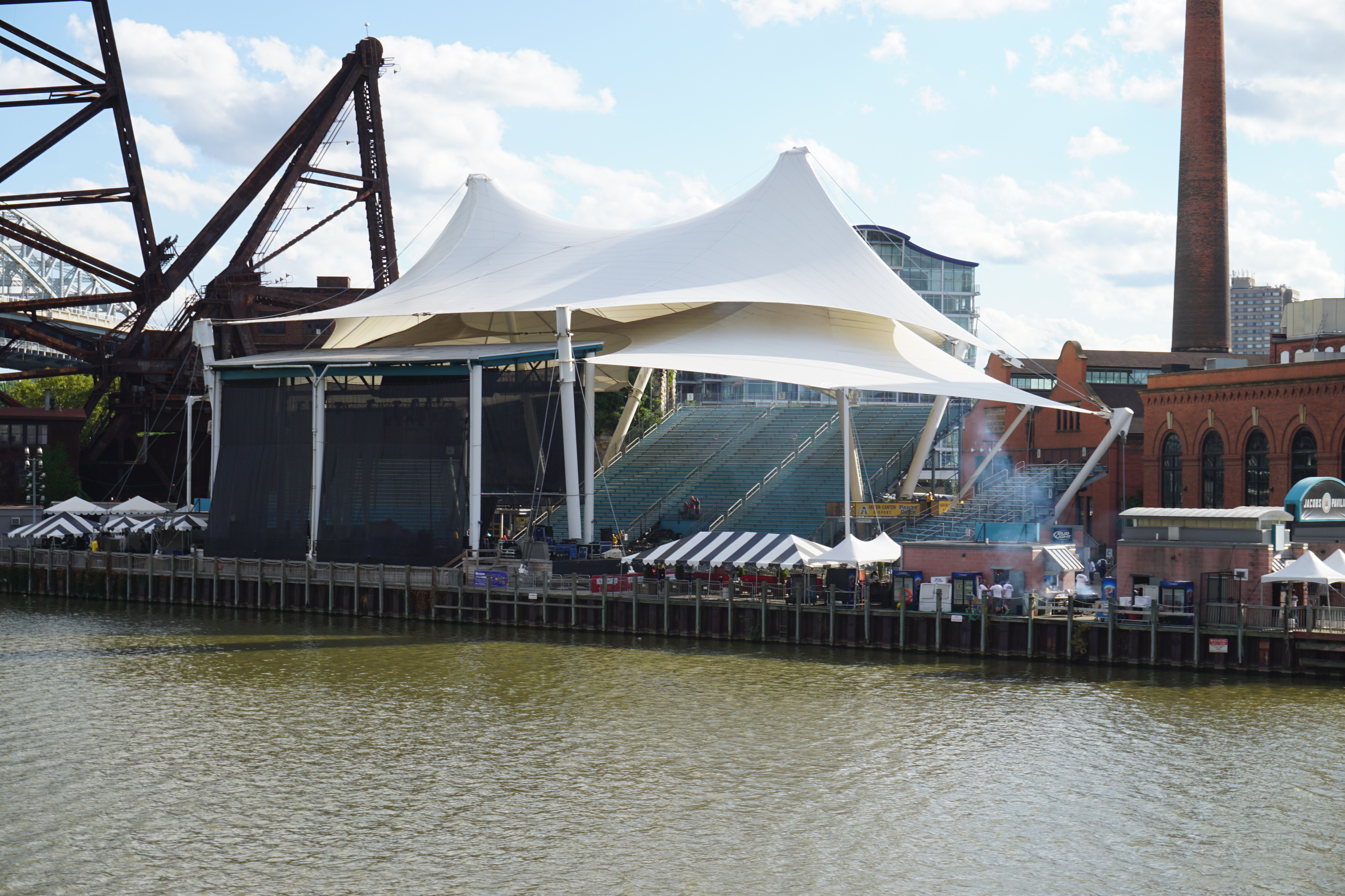 Jacobs Pavilion in Cleveland, Ohio (United States).